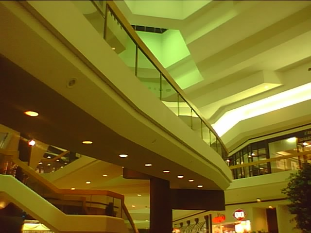 Picture of Fairlane Town Center Catwalk